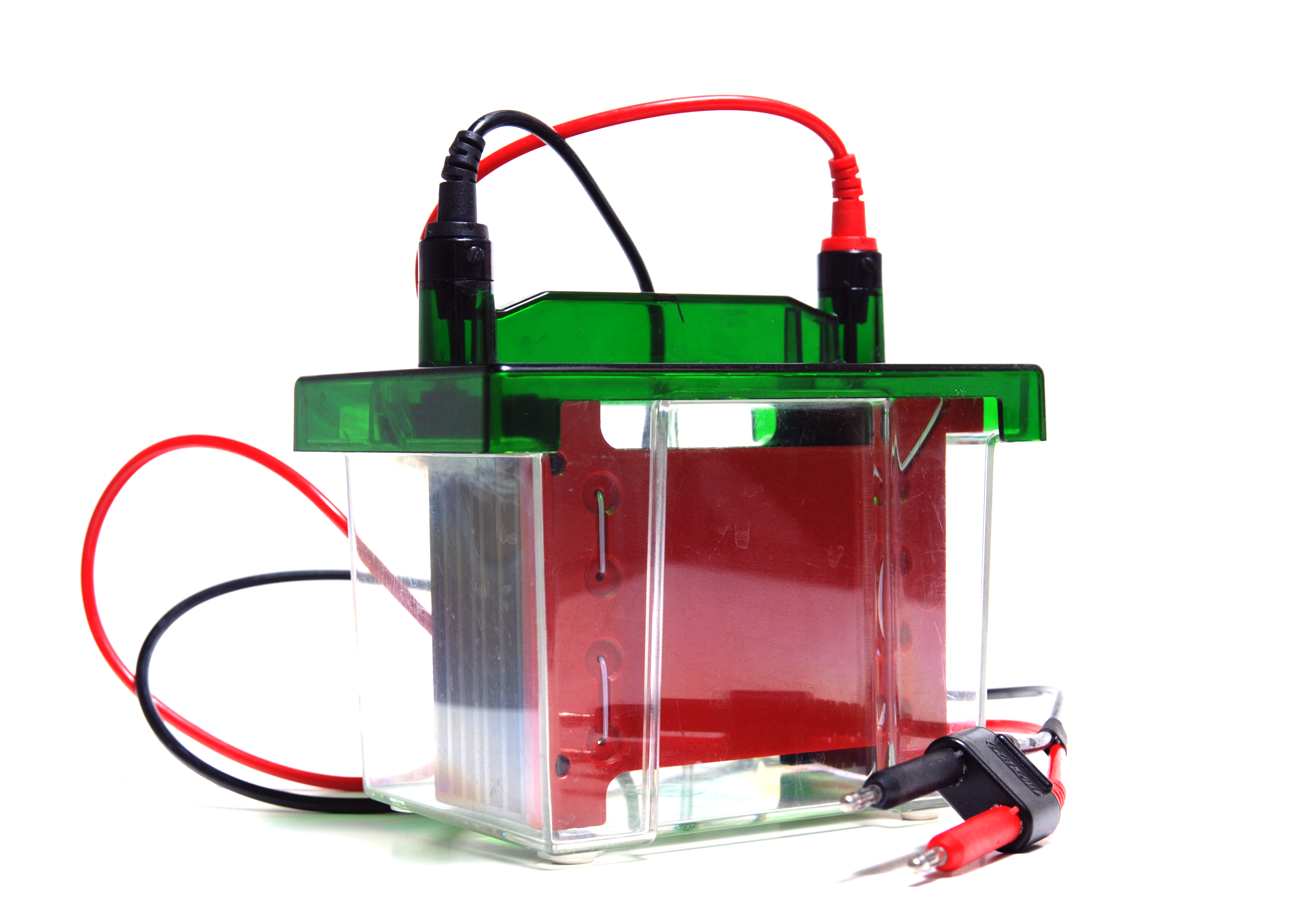 Wet Western blot transfer apparatus, Criterion.